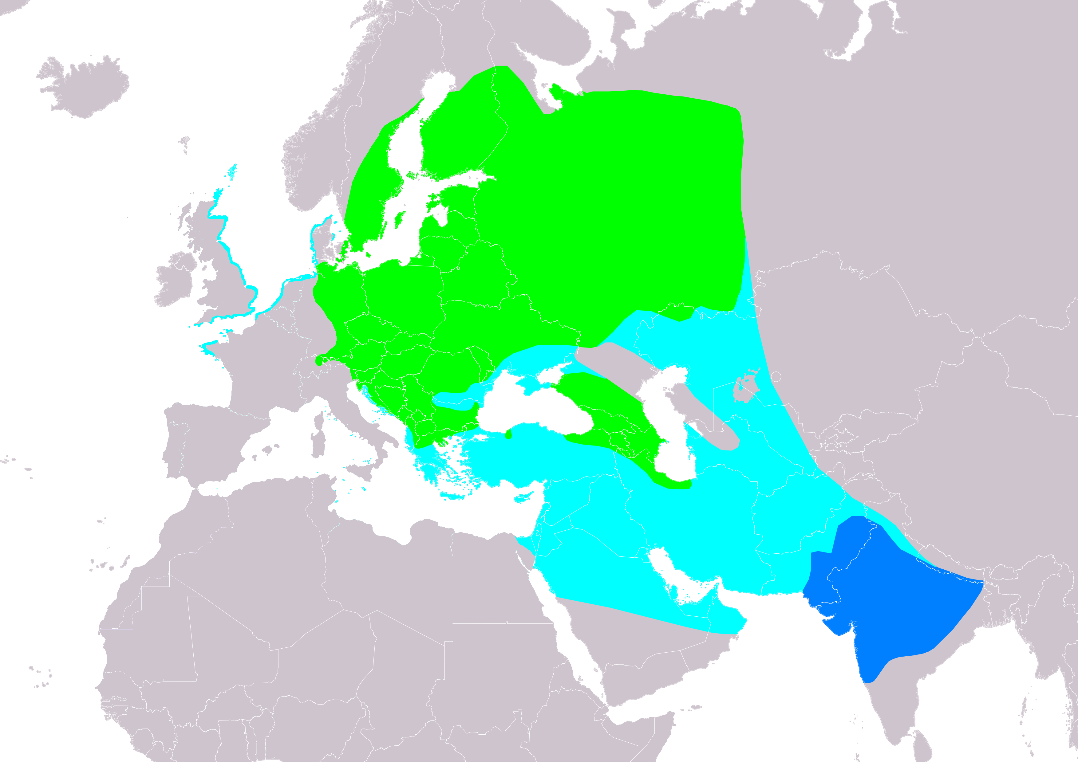 Distribution map of Red-breasted Flycatcher (Ficedula parva) according to IUCN version 2019-3; key: Legend: Extant, breeding (#00FF00), Extant, passage (#00FFFF), Extant, non-breeding (#007FFF), Extant & Origing uncertain (non breeding) (#907fff)